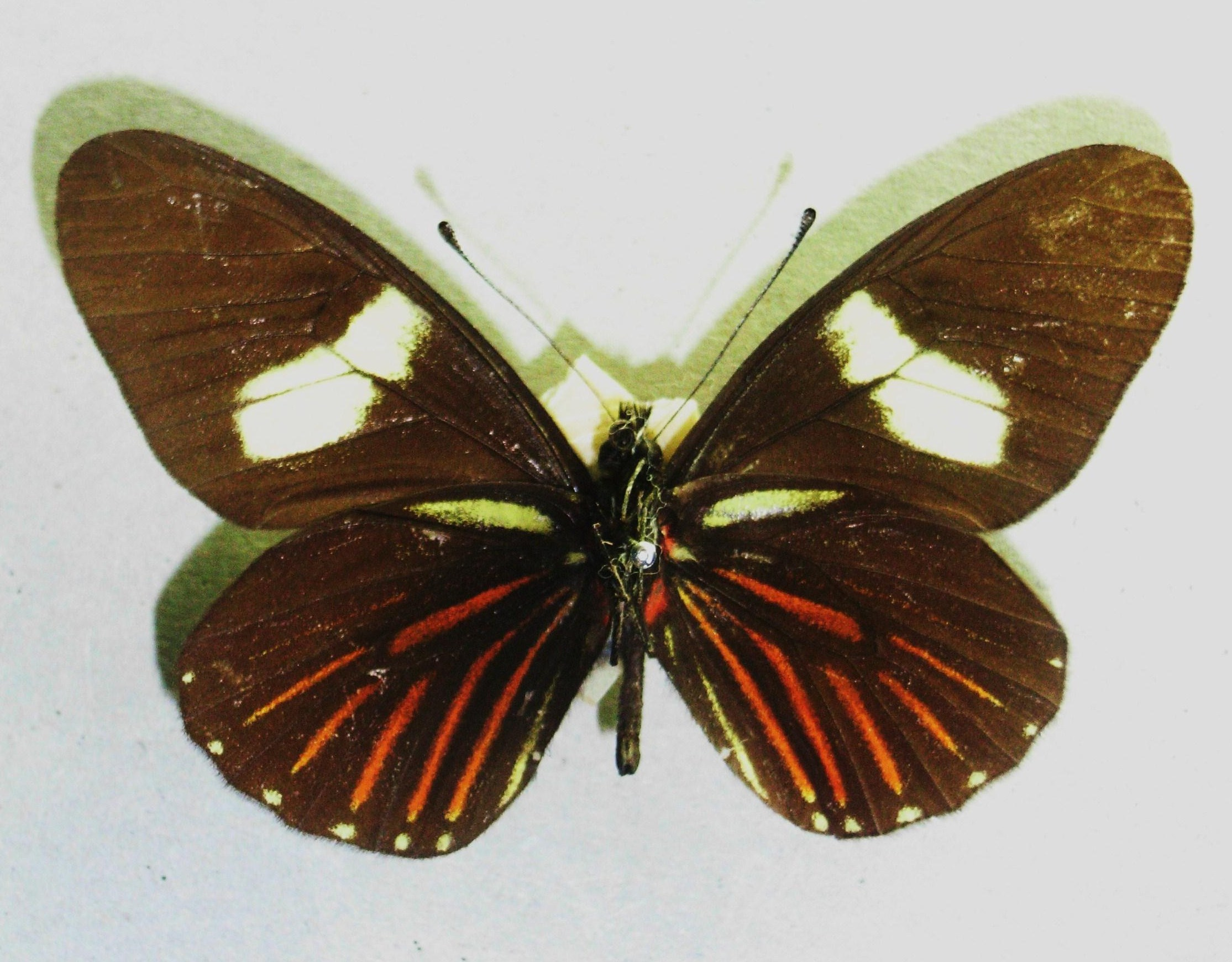 Archonias brassolis hyanetho underside:Pierinae:Pieridae